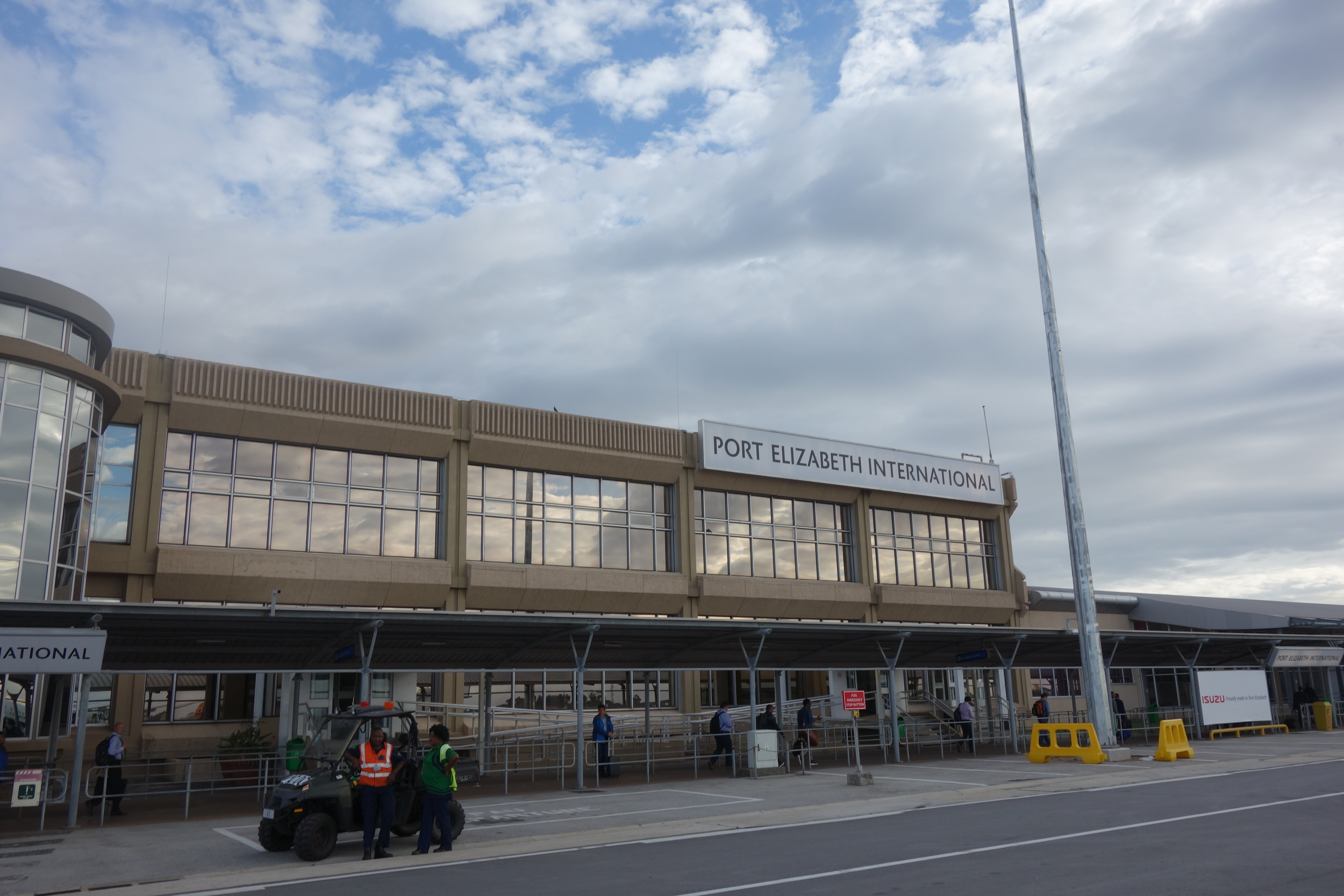 Terminal of Port Elizabeth Airport